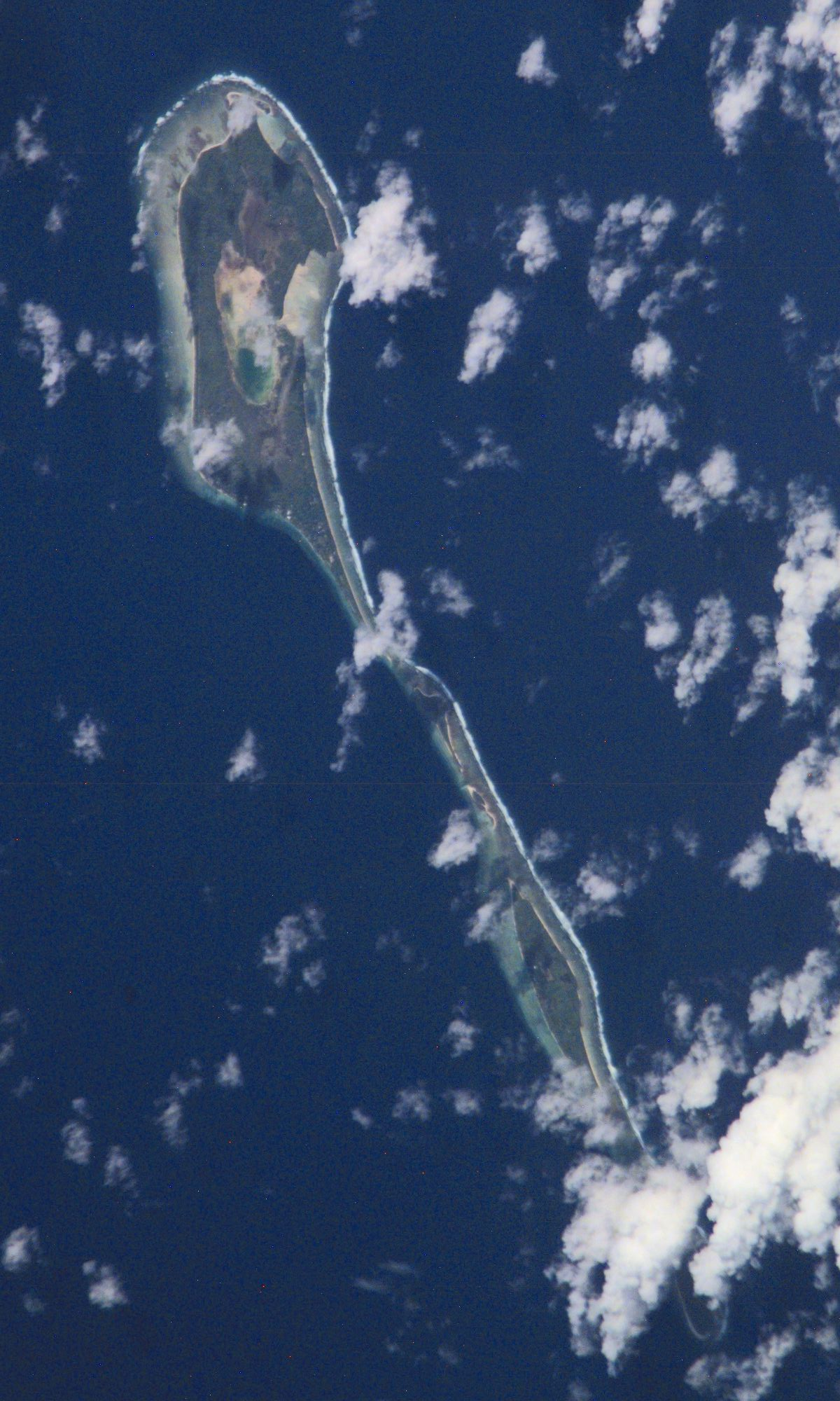 NASA astronaut image of Little Makin, Gilbert Islands, Kiribati